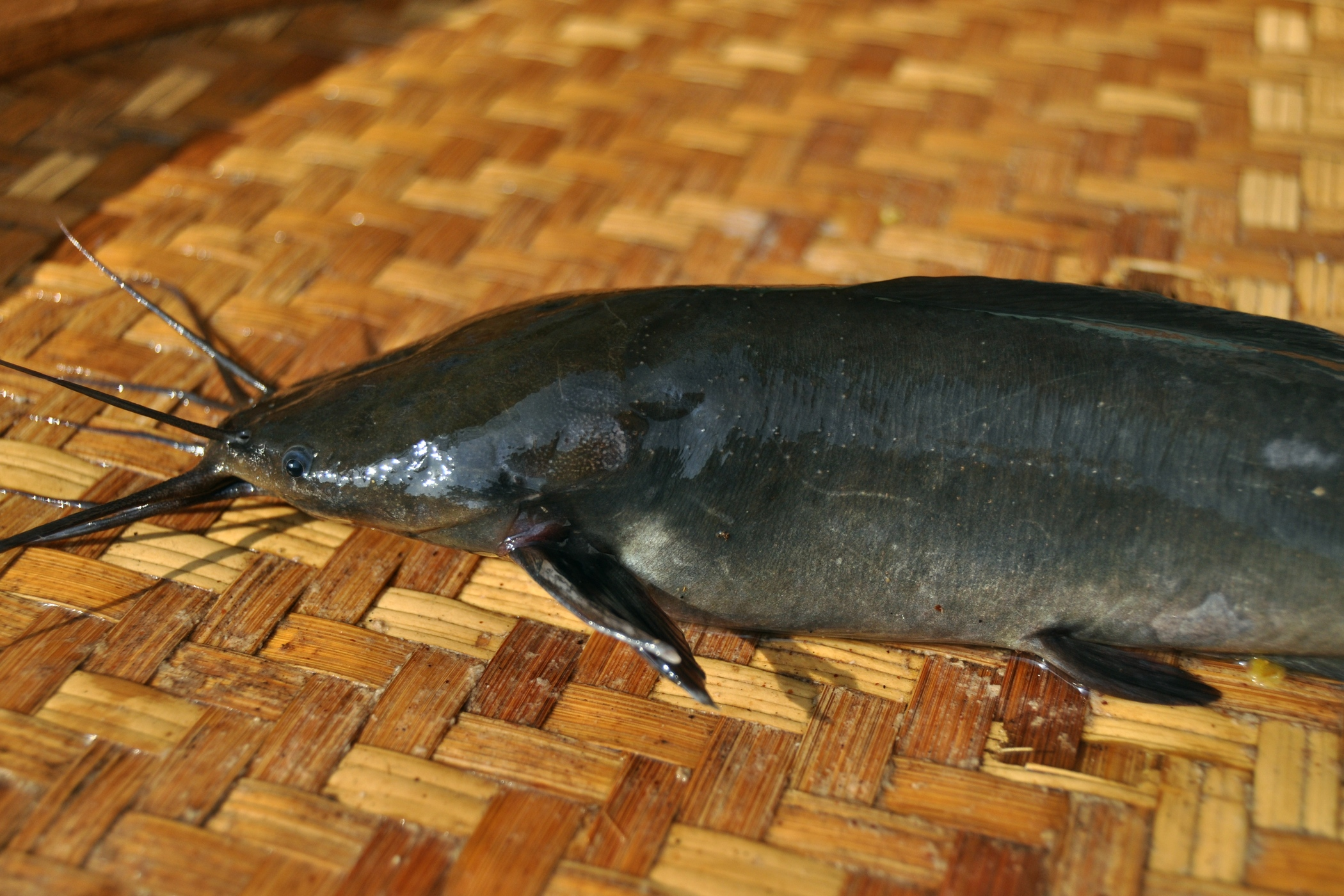 Walking catfish, Clarias batrachus; from Lumajang, East Java, Indonesia. Left lateral side; note the rows of minute white spots along it's side.